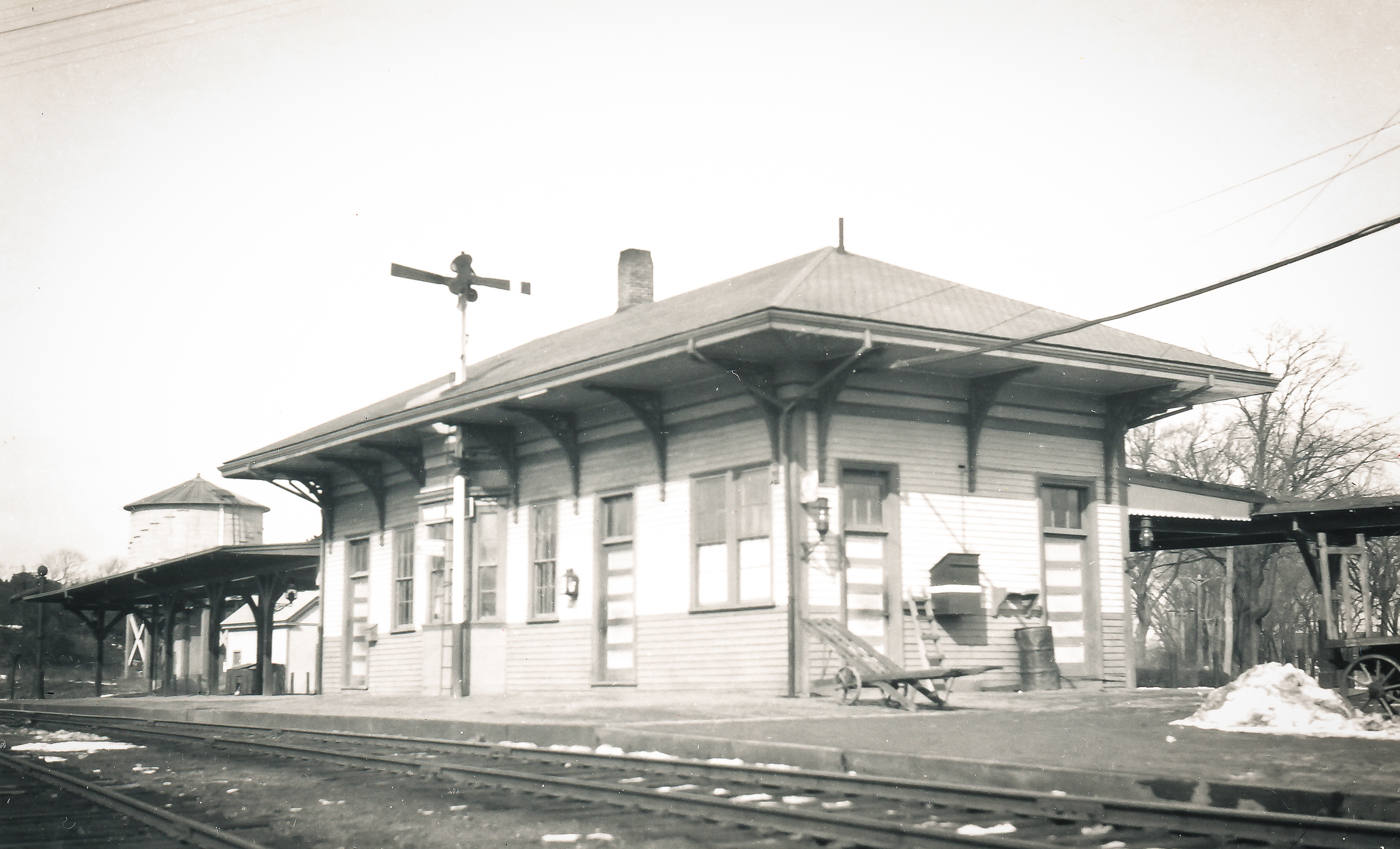 A photograph of the old New York, New Haven and Hartford Railroad station in Yarmouth, Massachusetts on Cape Cod.